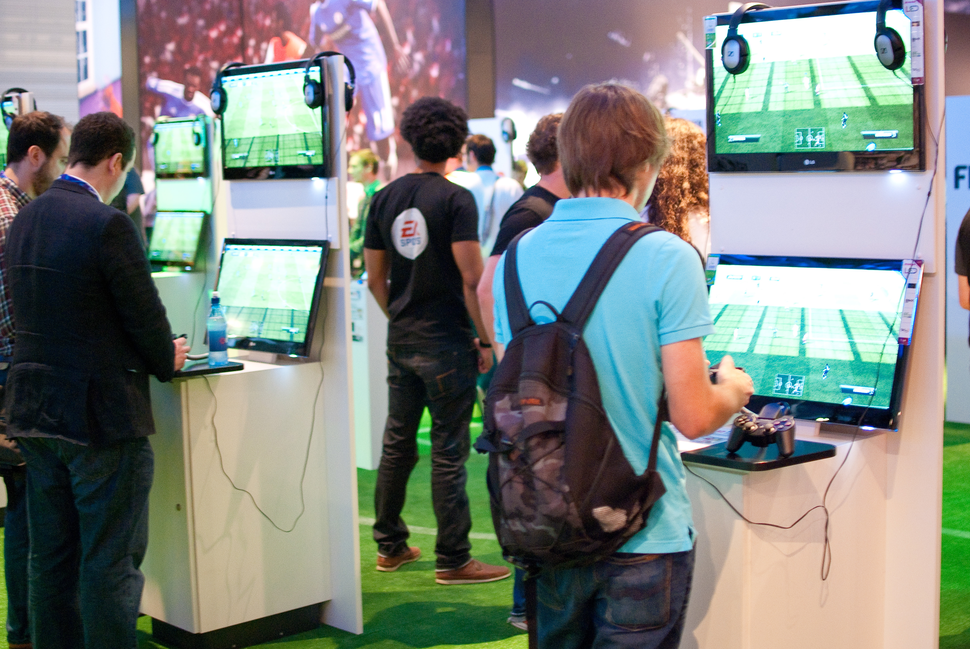 FIFA 12 at Gamescom 2011 in Cologne, Germany.